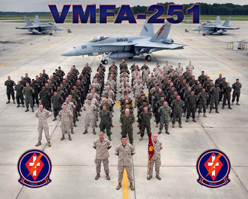 U.S. Marine Corps personnel of Marine fighter-bomber squadron VMFA-251 Thunderbolts in parade formation at Marine Corps Air Station Beaufort, South Carolina (USA), in 2005.